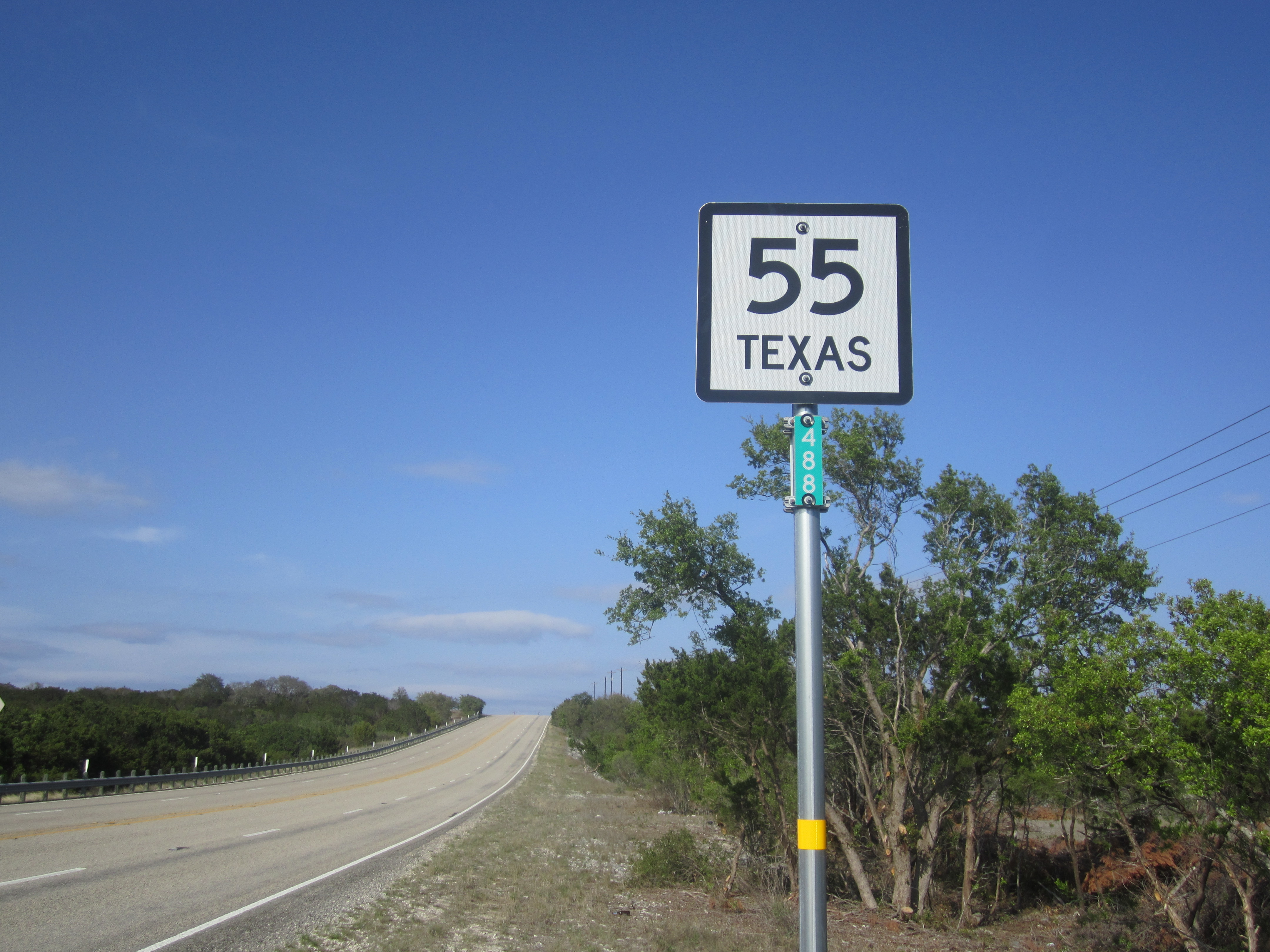 I took photo with Canon camera in Texas Hill Country south of Rocksprings